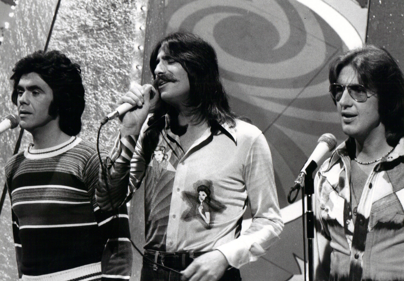 Photo of Three Dog Night performing in an NBC television special Love. From left: Cory Wells, Chuck Negron, Danny Hutton.